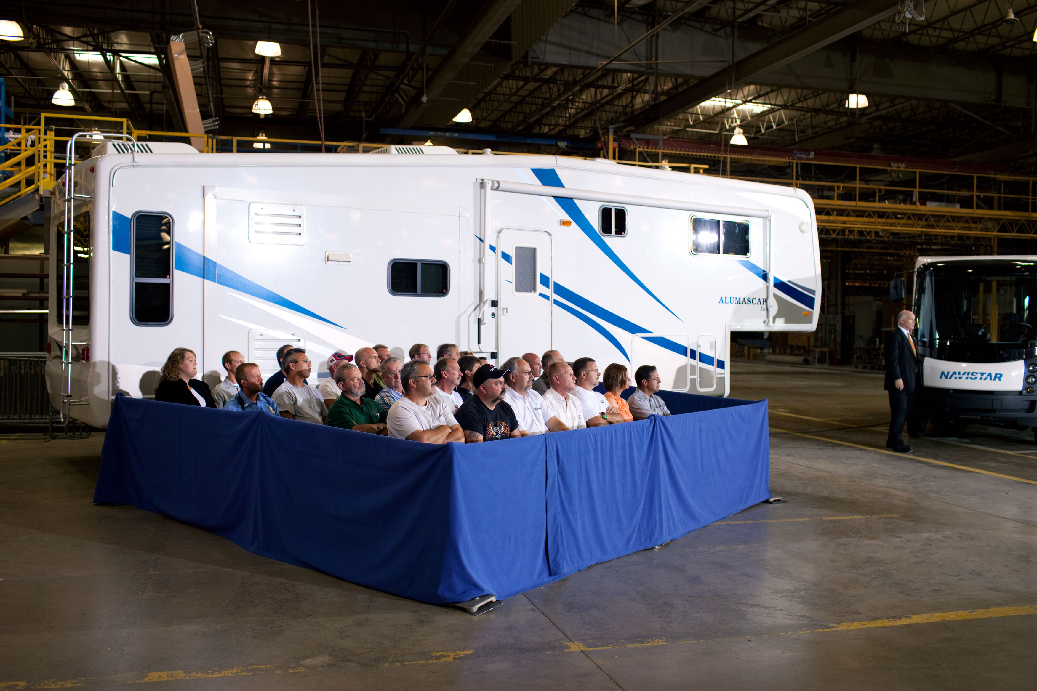 Employees at Monaco RV manufacturing in Wakarusa, Ind. listen to President Barack Obama's remarks on the economy on Aug. 5, 2009. Year Round RV Parks (Official White House Photo by Pete Souza)